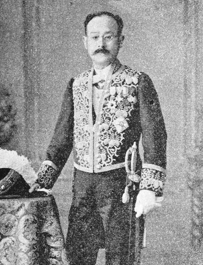 Samejima Takenosuke, Chief Secretary of Cabinet